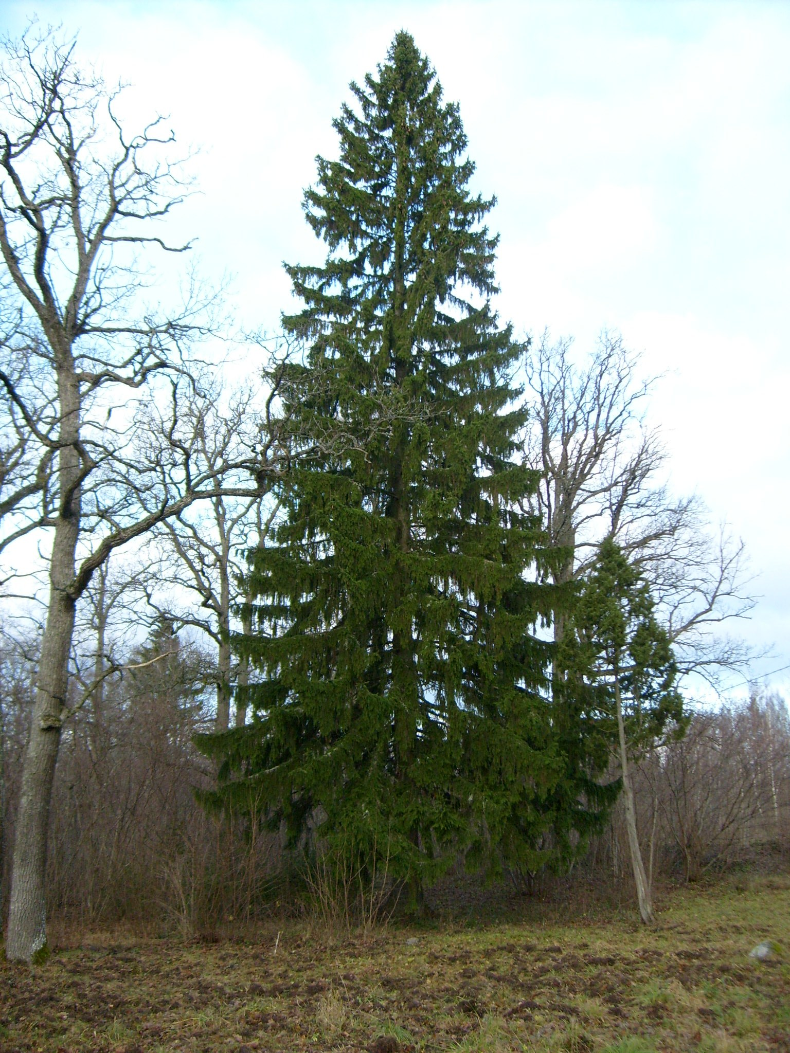 Picea abies in Estonia, western part of the town Keila. Harilik kuusk Keila lääneosas, Tammiku tee ääres.